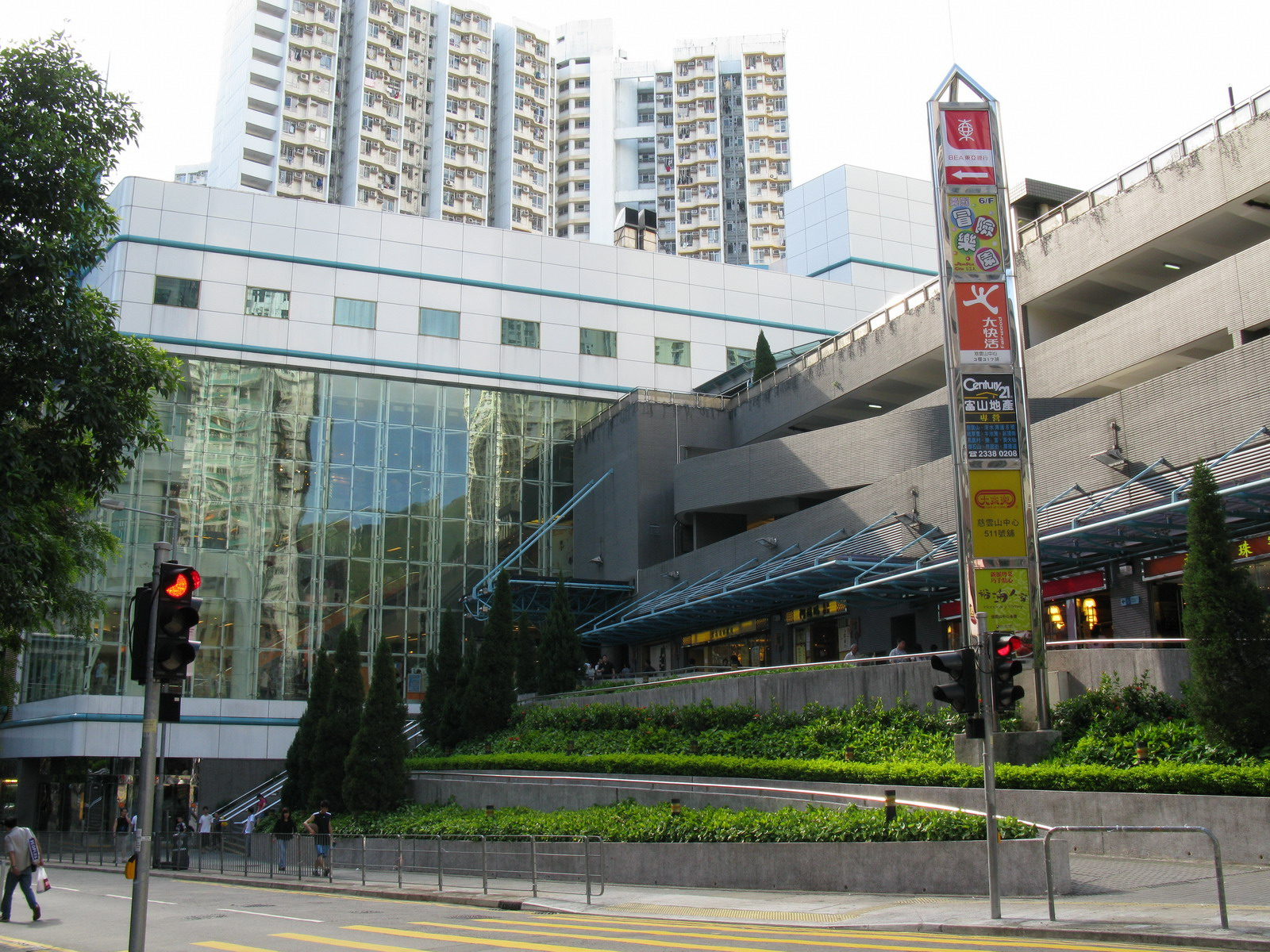 Tsz Wan Shan Shopping Centre